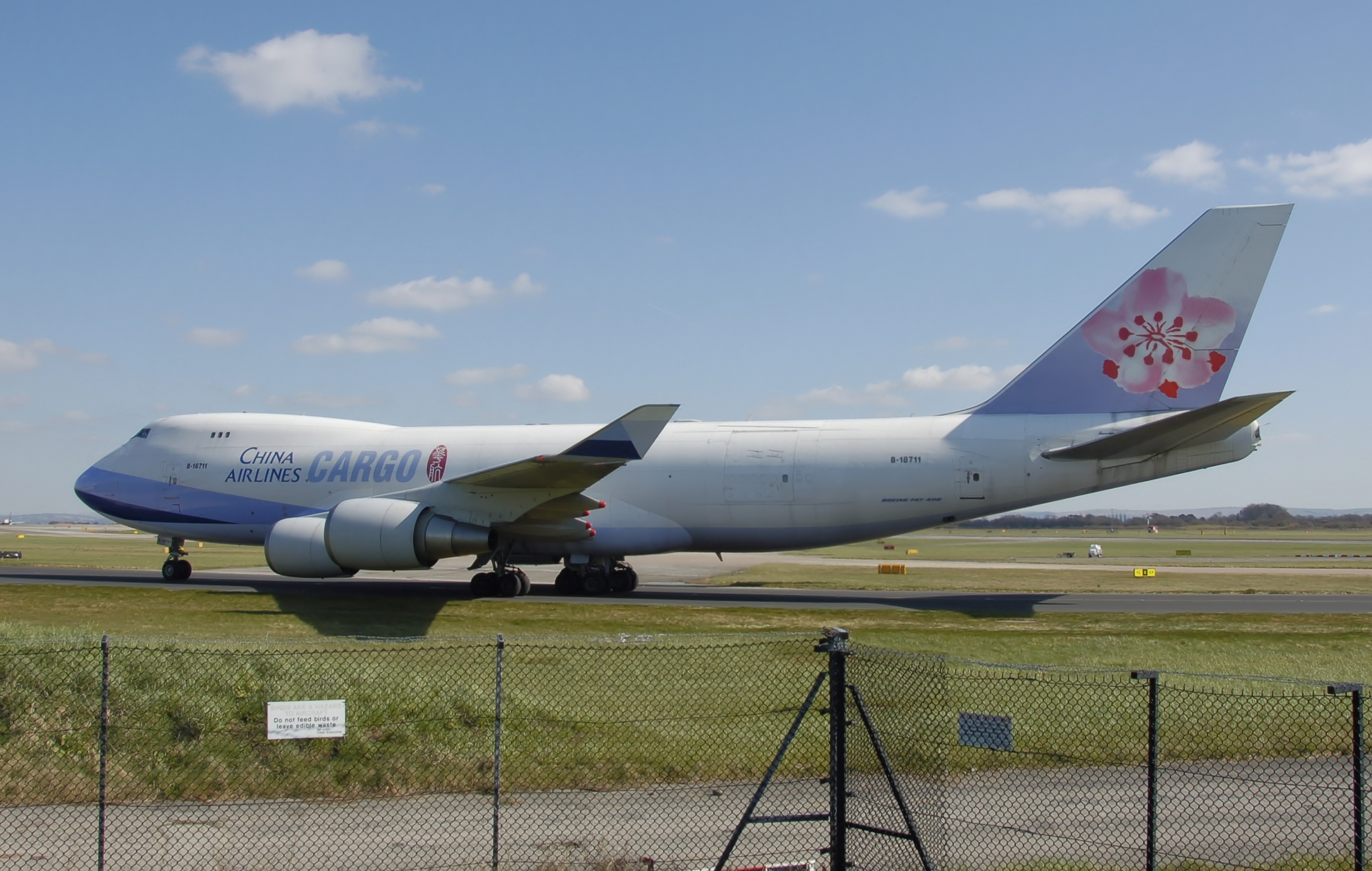 China Airlines Cargo Boeing 747-400 (B-18711) taxis after landing at Manchester Airport, England. Seen from the Aviation Viewing Park.